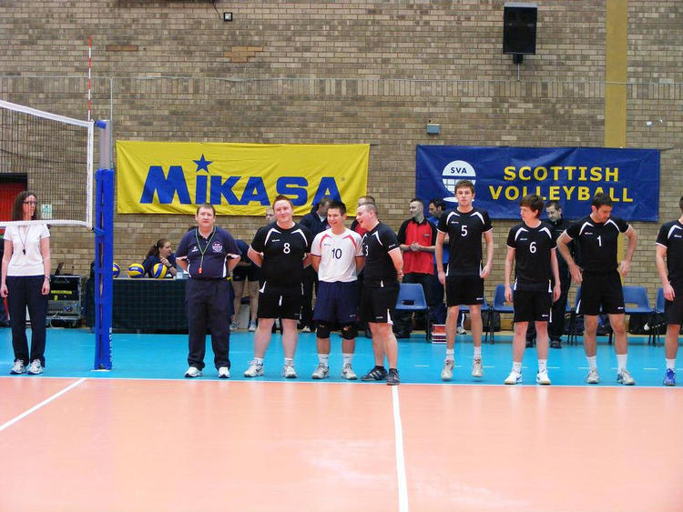 Glasgow Mets Scottish Plate Final